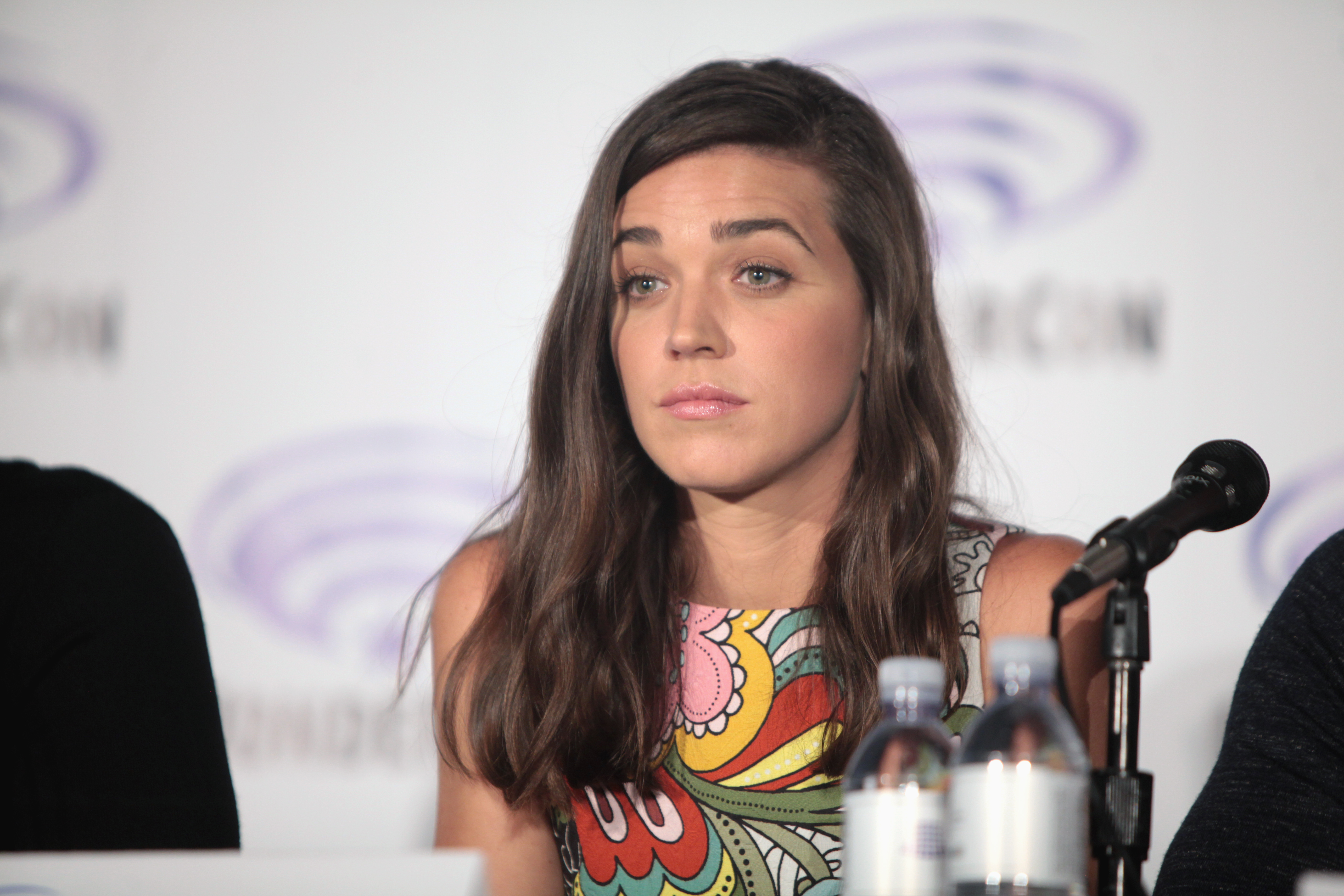 Marissa Neitling speaking at the 2016 WonderCon, for "The Last Ship", at the Los Angeles Convention Center in Los Angeles, California.